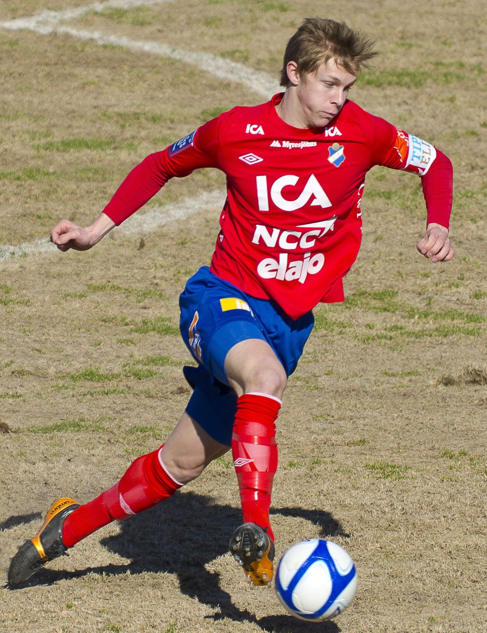 Emil Krafth playing for Östers IF in 2011.